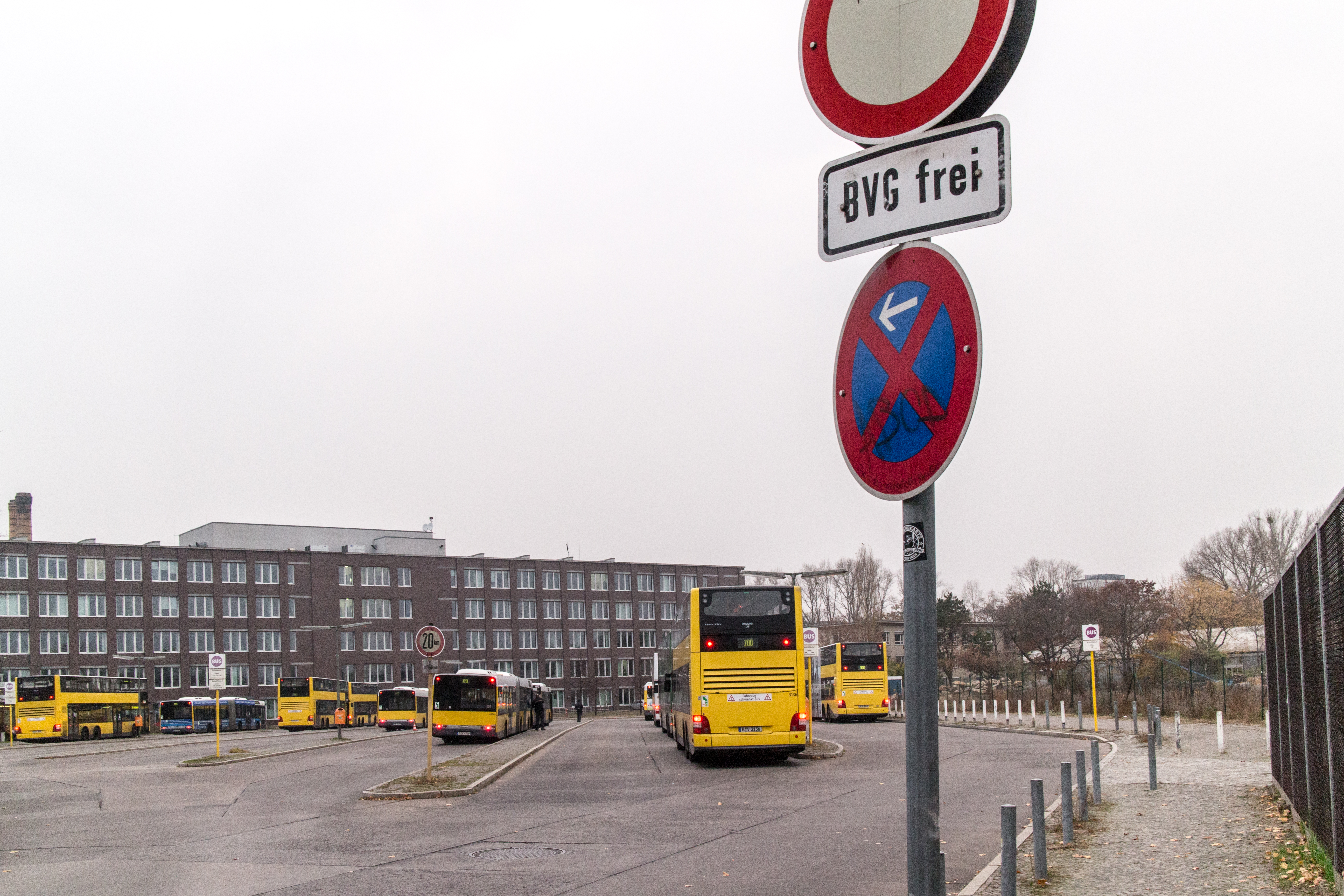 bus depot Hertzallee